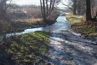 The river Altenau, a tributary of the Oker (Aller) near Schoeppenstedt in Lower Saxony/Germany